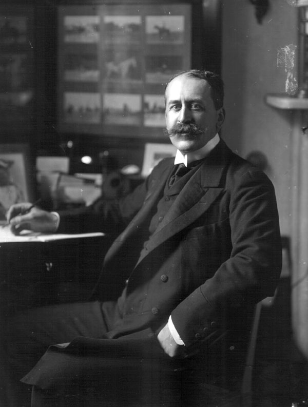 Portrait picture of Count Herman Wrangel (1857–1943), Swedish diplomat